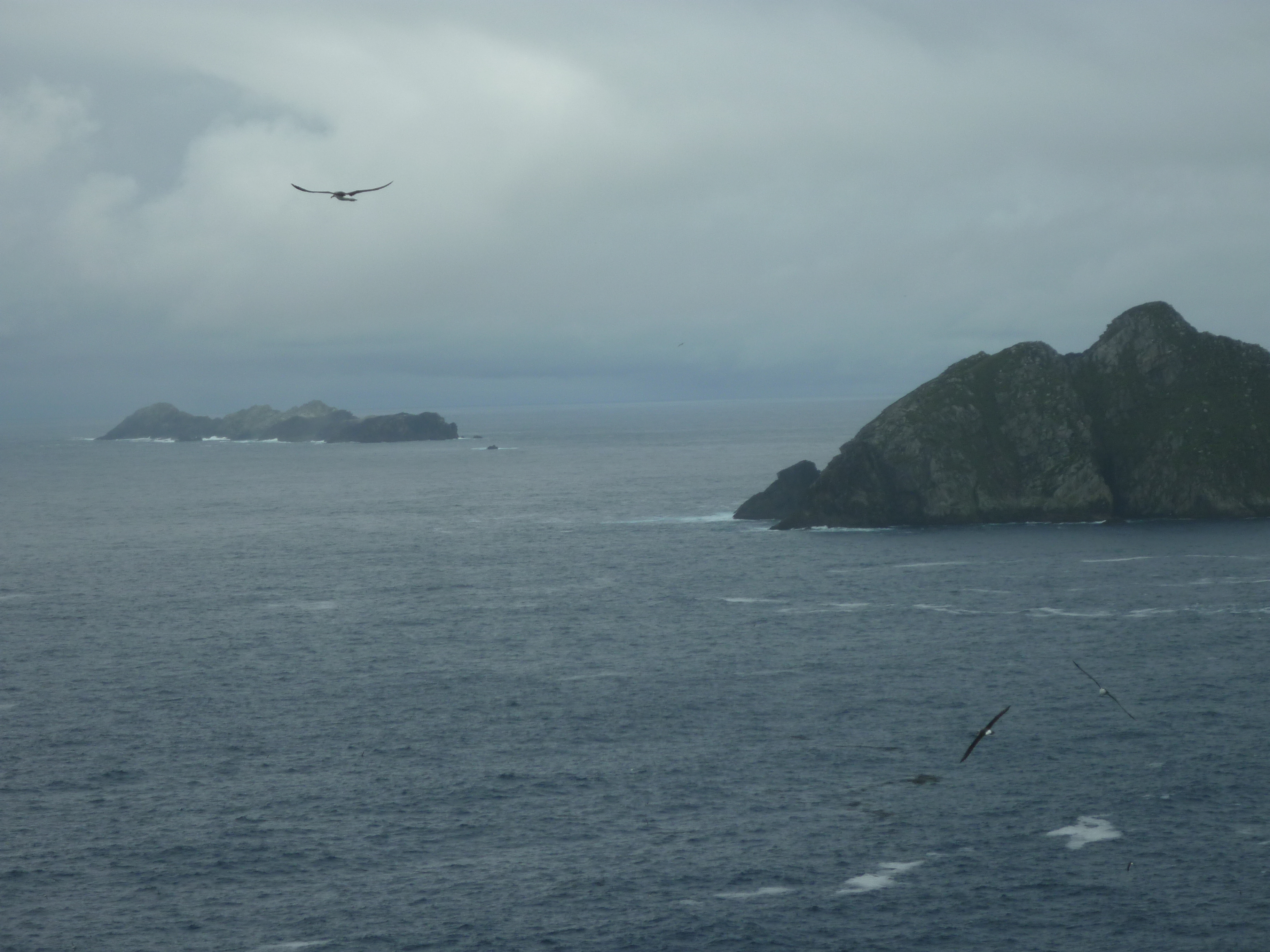 Western Chain Island Group ( LHS in the distance) with Alert Stack in the Foreground( RHS) - Snares Islands Group